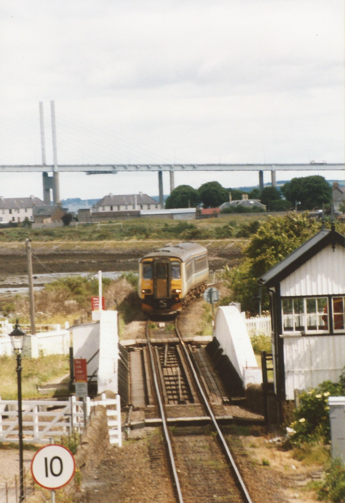 Railway swing bridge across the Caledonian Canal